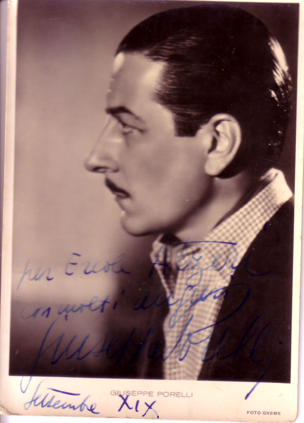 Italian actor Giuseppe Porelli